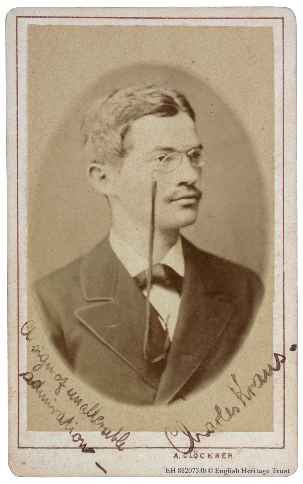 Charles Kraus, (Carl Kraus), an agricultural scientist from East Bohemia